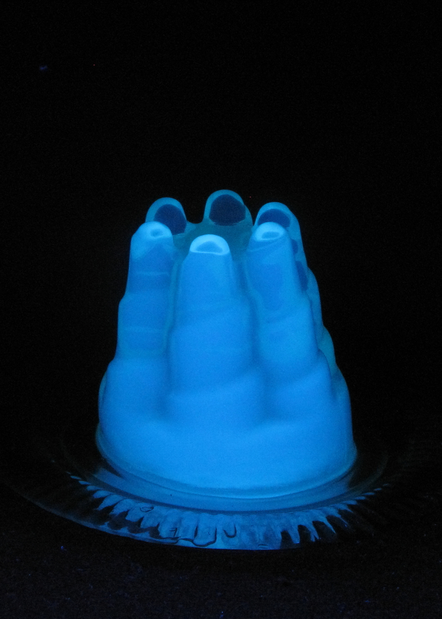 Glow-in-the-dark absinthe jelly